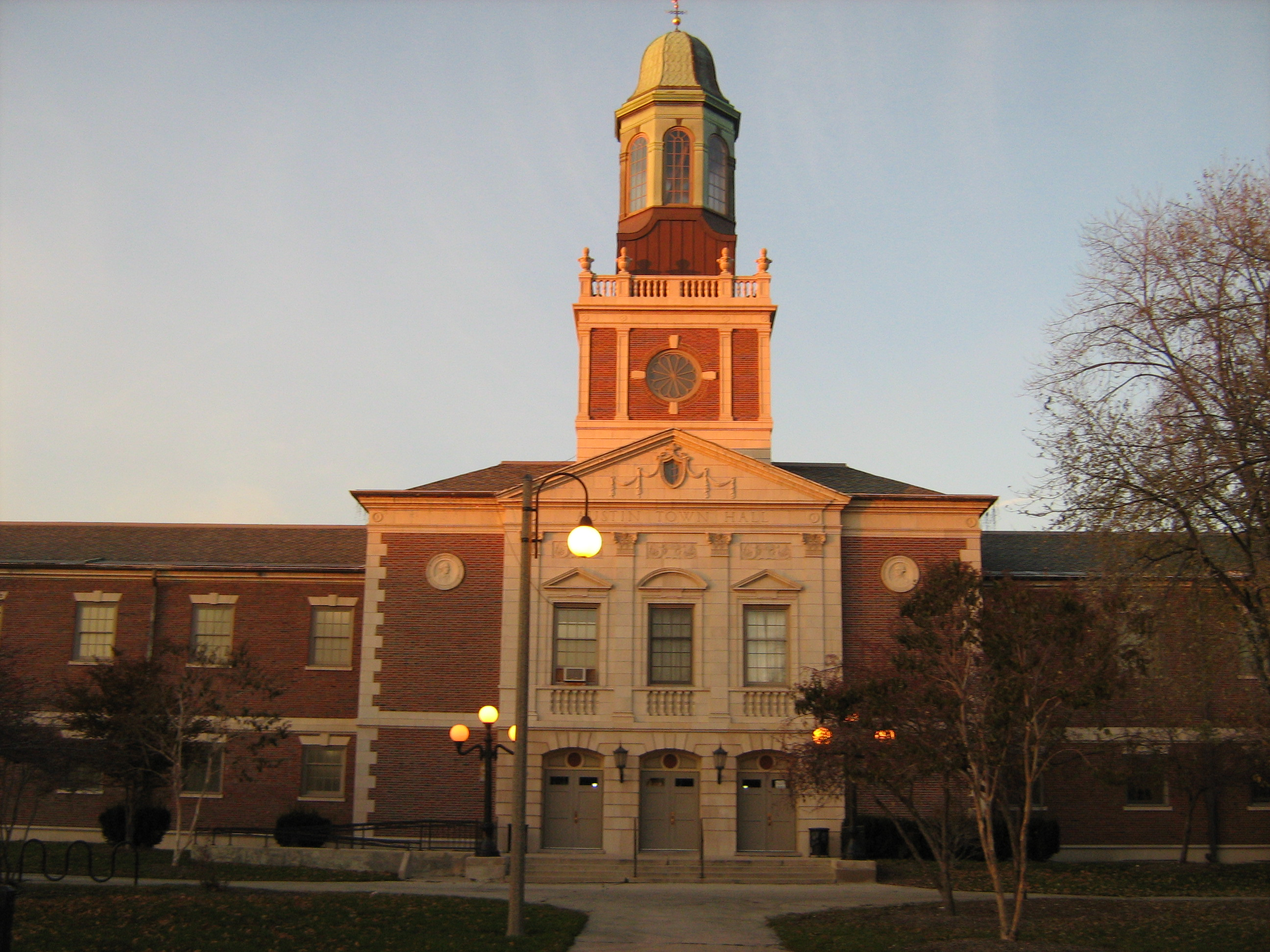 5610 W. Lake St. Chicago, IL 60644 773-287-7658